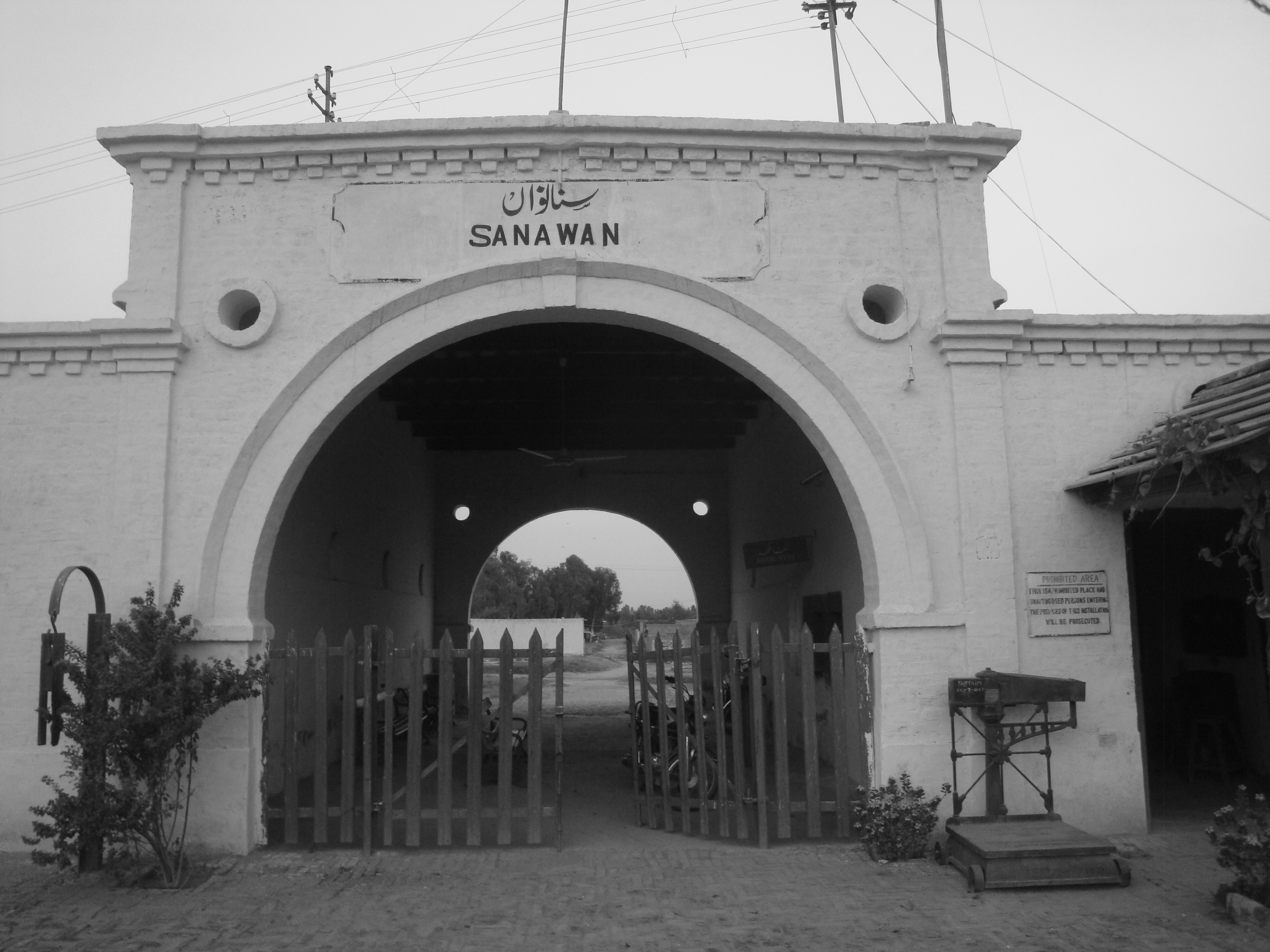 In this photo , a historical structure that is the main entrance of an old Railway station, Sanawan Railway Station can be seen.